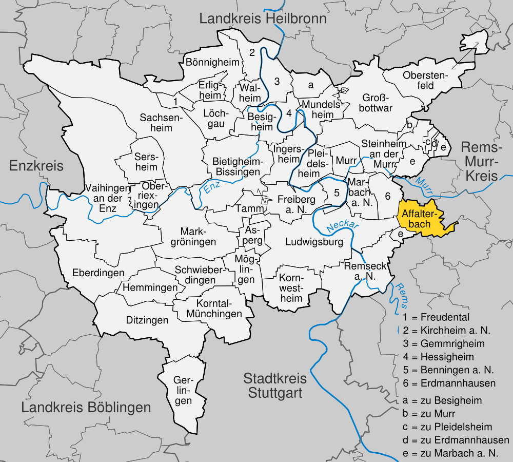 position of Affalterbach within distict of Ludwigsburg, Baden-Württemberg, Germany